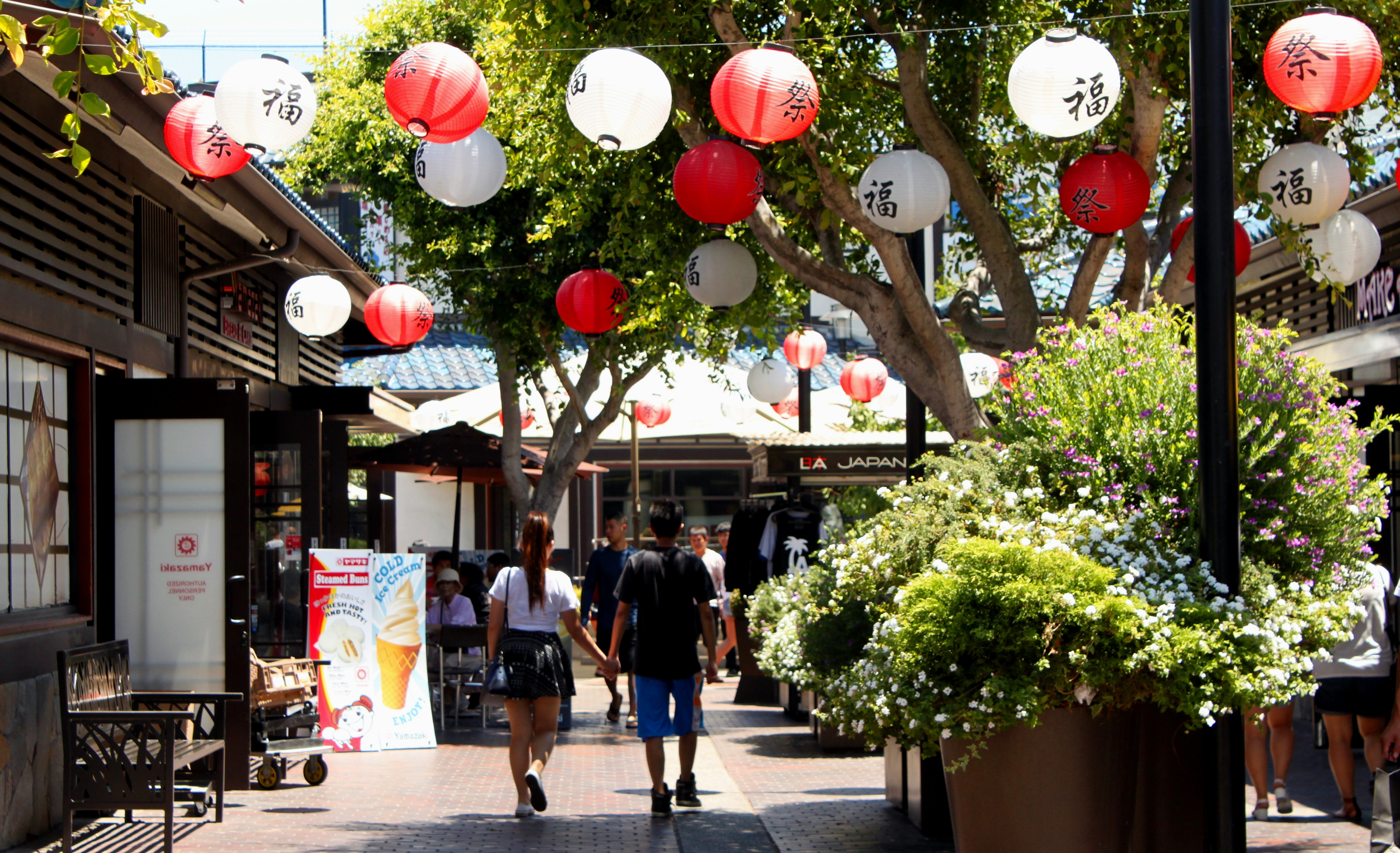 Down Town Los Angeles, California Metro Gold Line : Little Tokyo Station